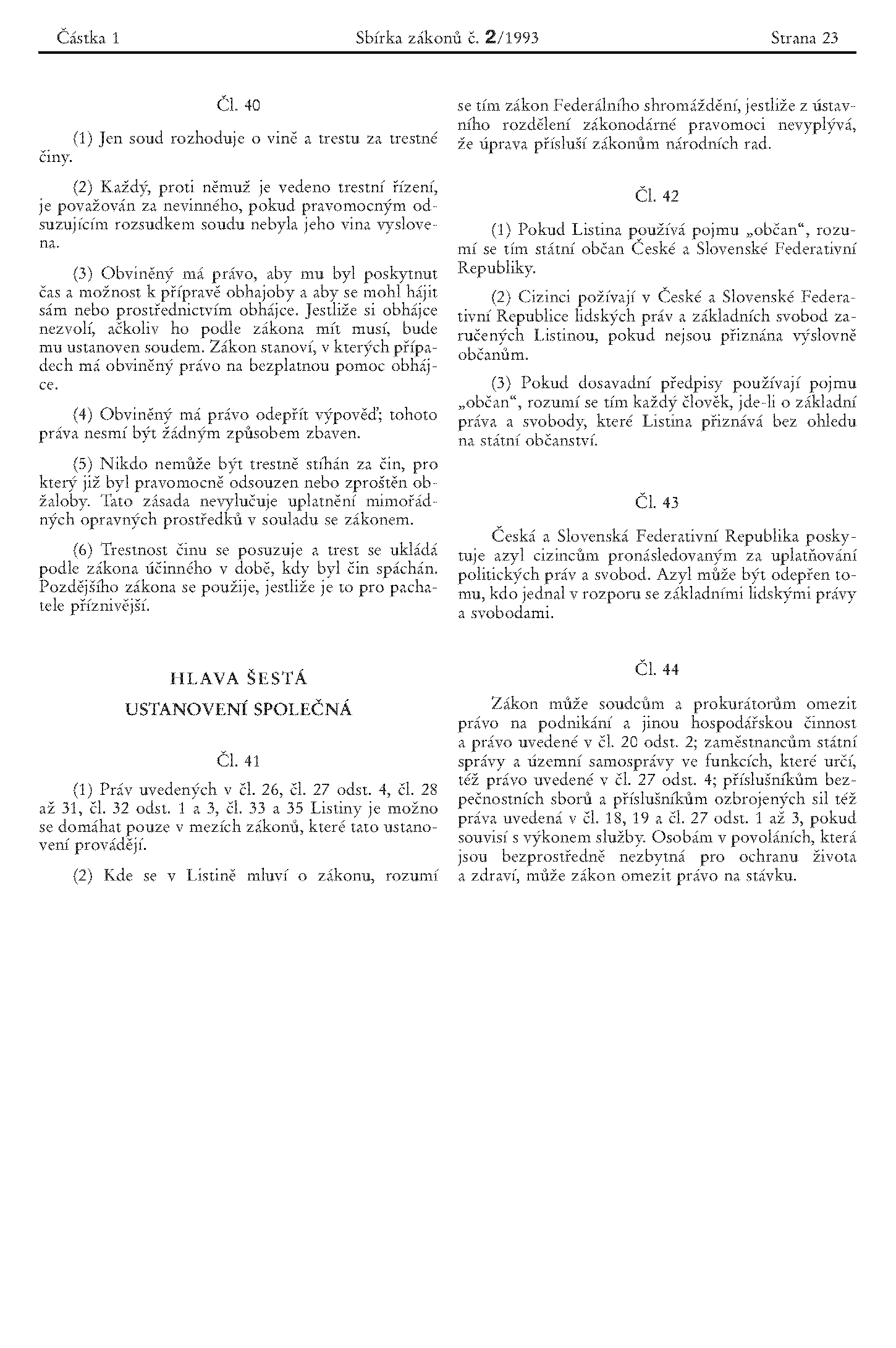 Czech Collection of Laws' official issue with the 1993 Constitution No. 1/1993 Coll. Česky: Stejnopis Sbírky zákonů s Ústavou České republiky (1/1993 Sb.) a Listinou základních práv a svobod (2/1993 Sb.)